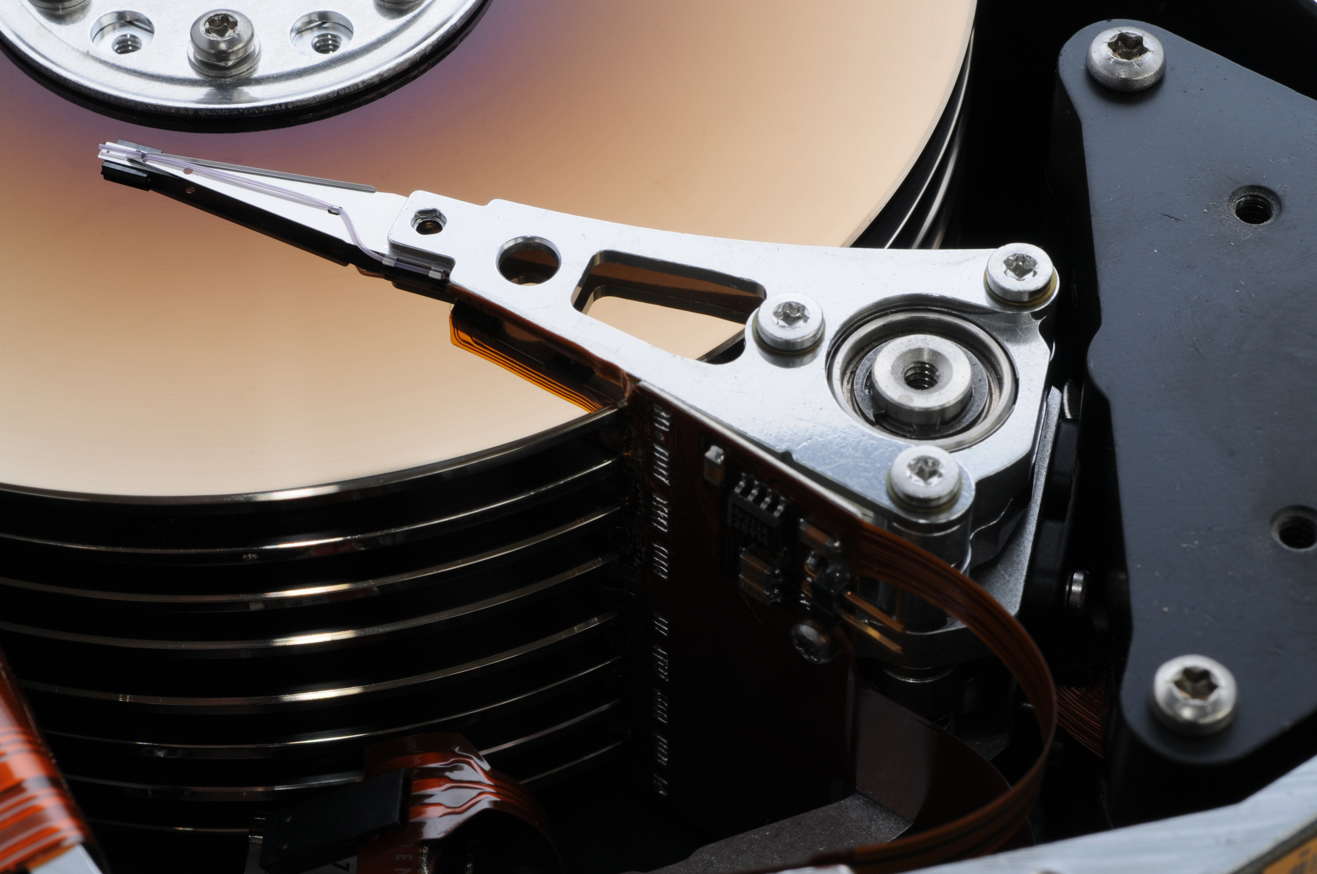 Hard disk Seagate ST4702N, 1991, 5.25 inch, full height, 8 discs, 15 heads, 1546 cylinders, 50 sectors/track, SCSI1, capacity formatted 601 MB)